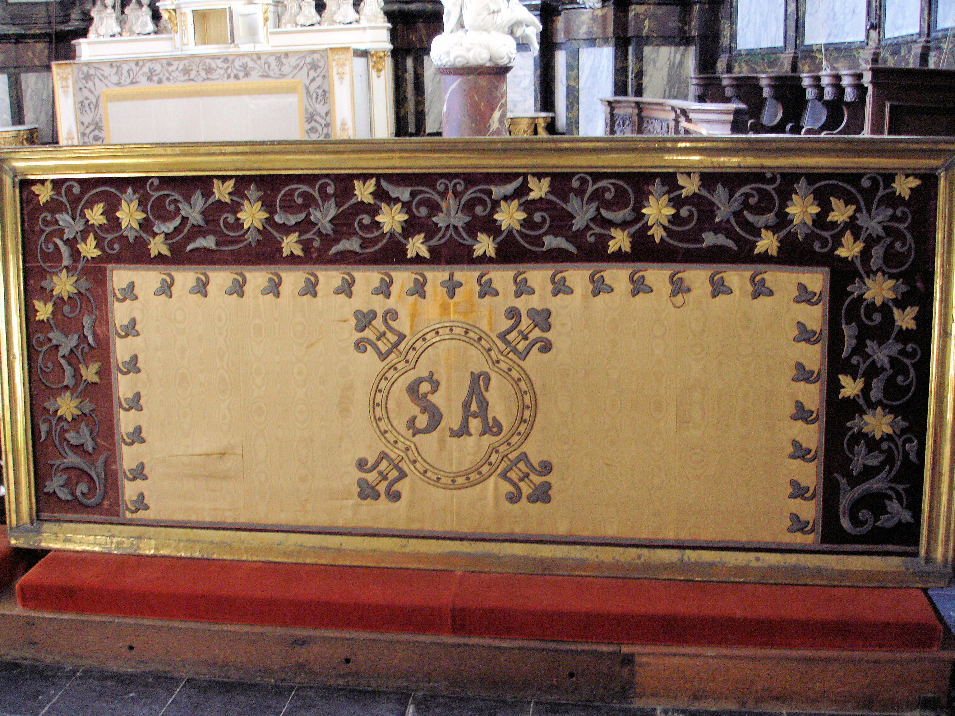 own work; a Antependium with Applicated Gold and Silver embroidery; 19th Century?